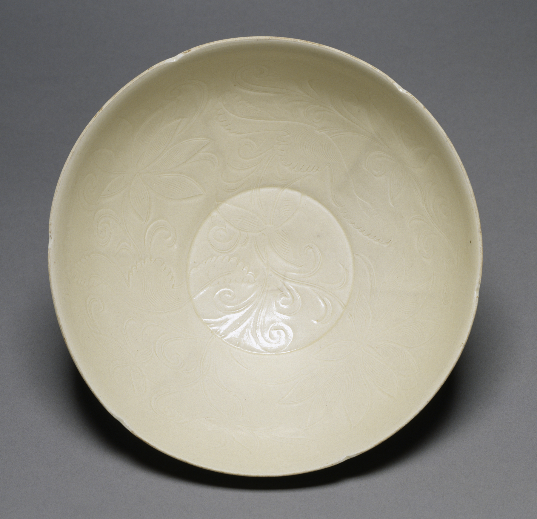 A flaring bowl with notched rim. A lotus spray fills the inside walls of the bowl in seeming organic harmony with its shape.